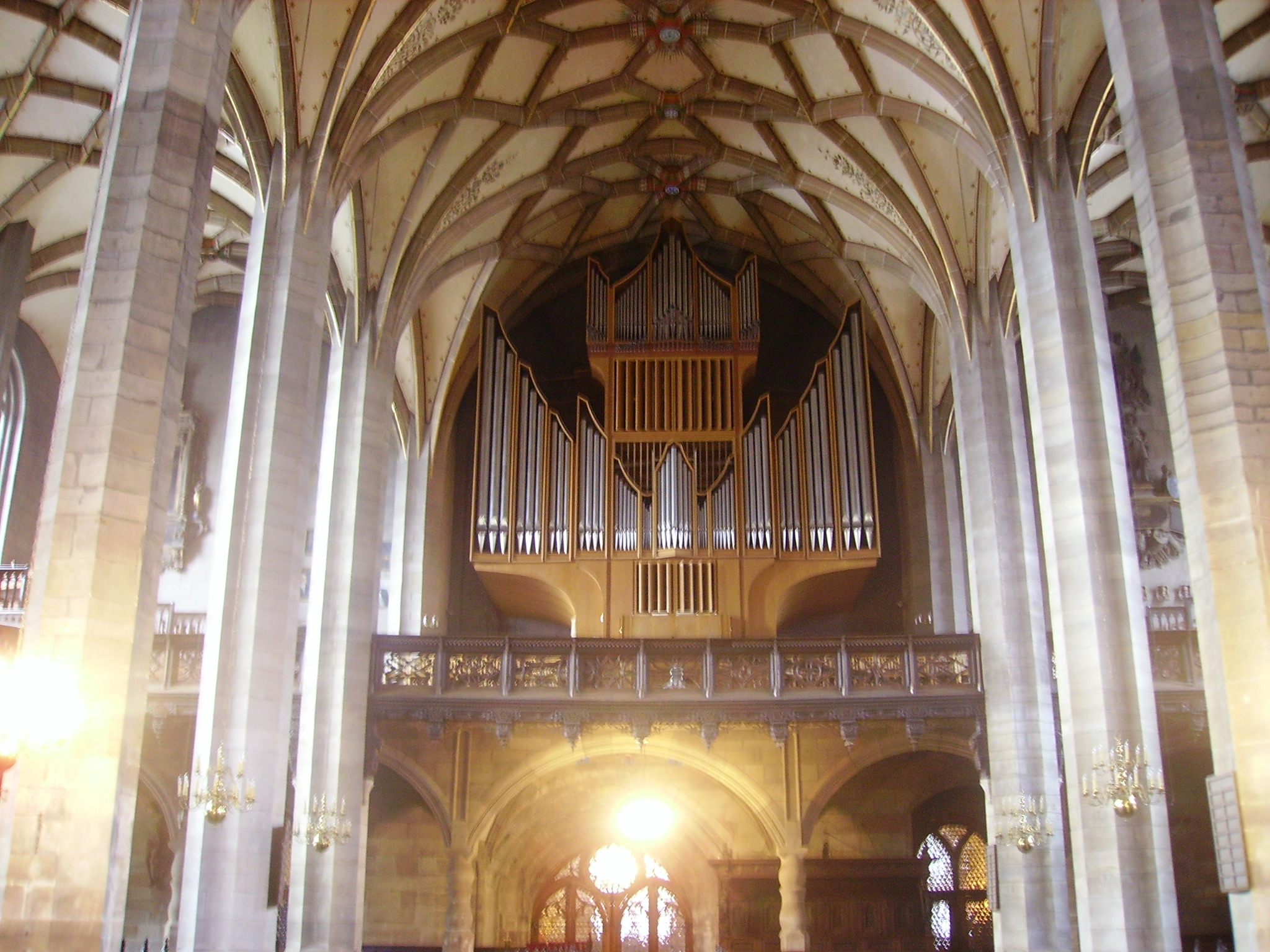 Organ of the Minster St. Mary, Zwickau